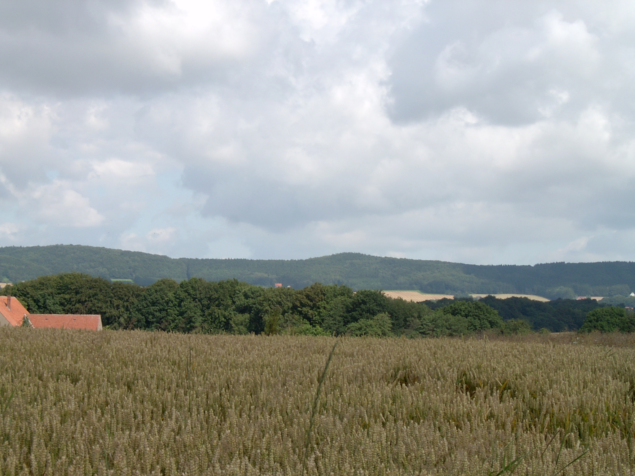 View on low mountain range Wiehengebirge south of Rödinghausen.